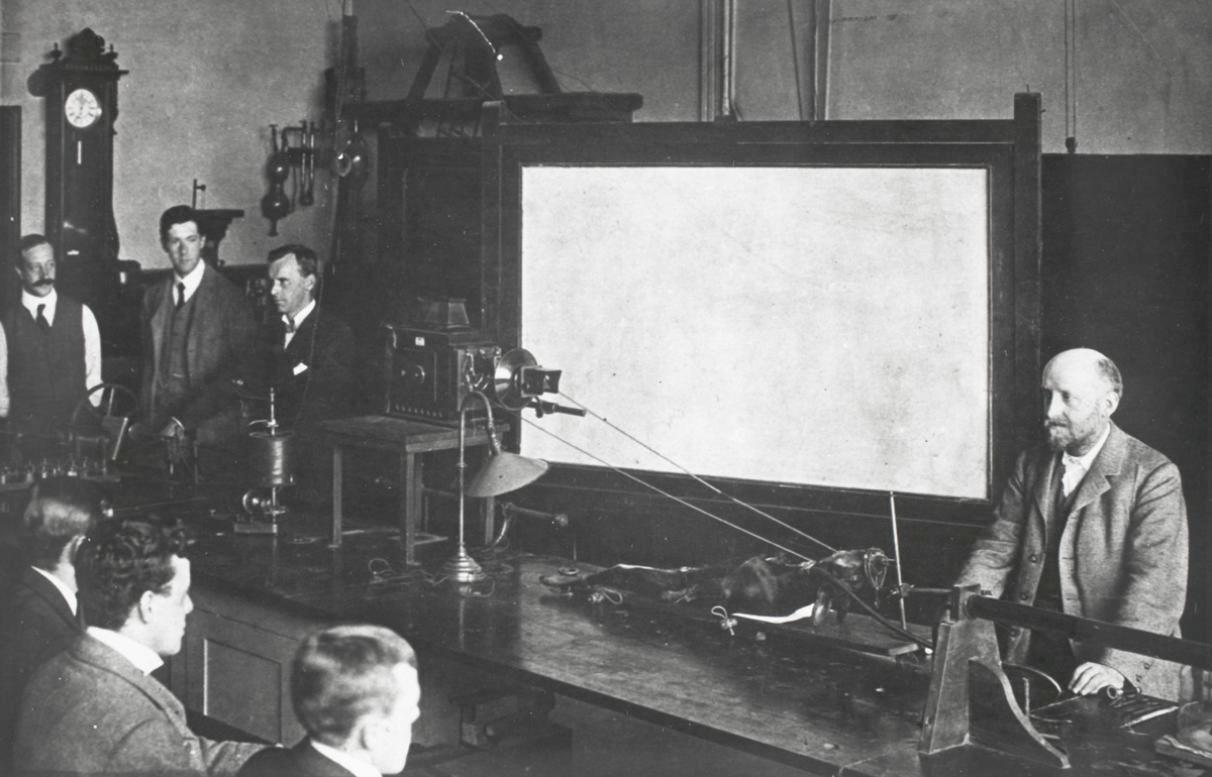 See Brown Dog affair. Reconstruction of a 1903 demonstration by William Bayliss, a physiologist at University College London, during which anti-vivisectionists said a dog was vivisected without anaesthetic. Bayliss sued for libel, successfully, and the lecture was reconstructed for the court during the November 1903 trial in London. It shows William Bayliss (standing at the front, with an anaesthetized dog), and to his right Ernest Starling, Henry Dale, and the laboratory technician, Charles Scuttle.